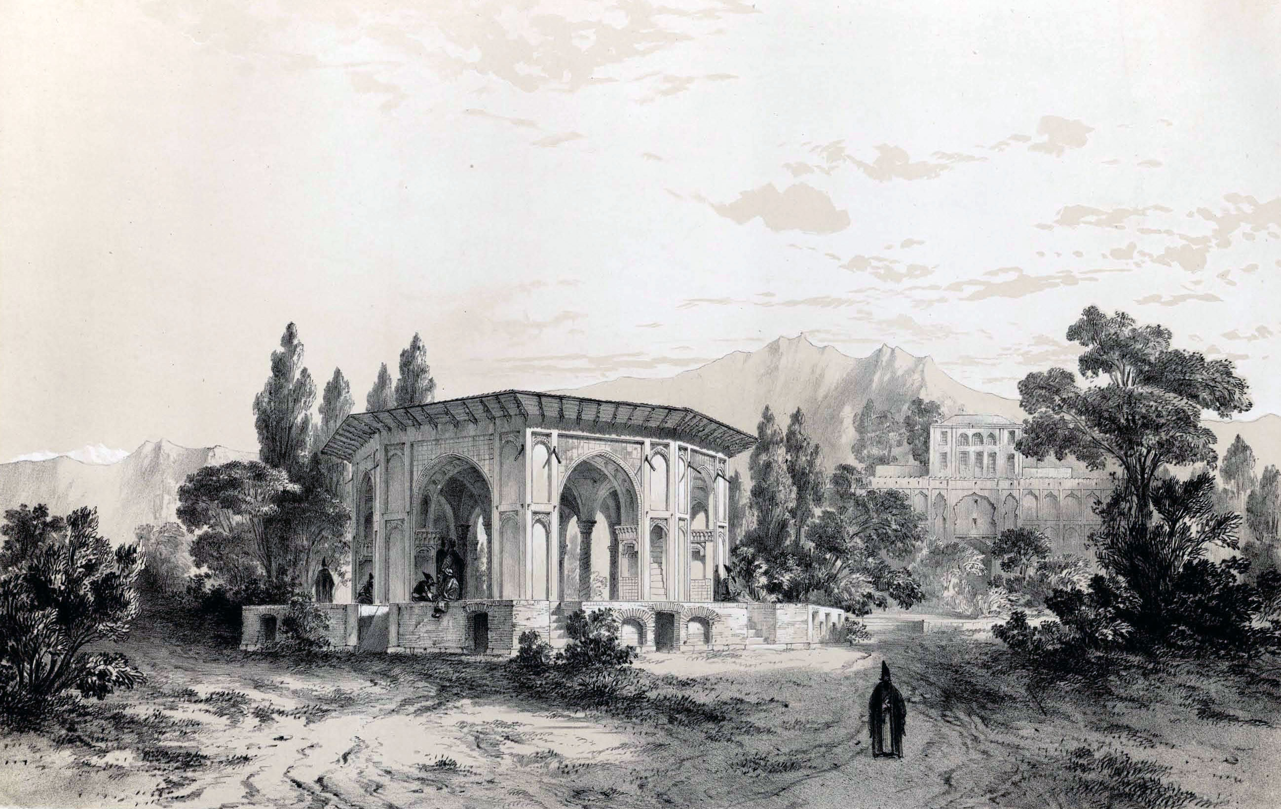 Gazebo and gardens of the palace of Qasr e Qajar , Tehran